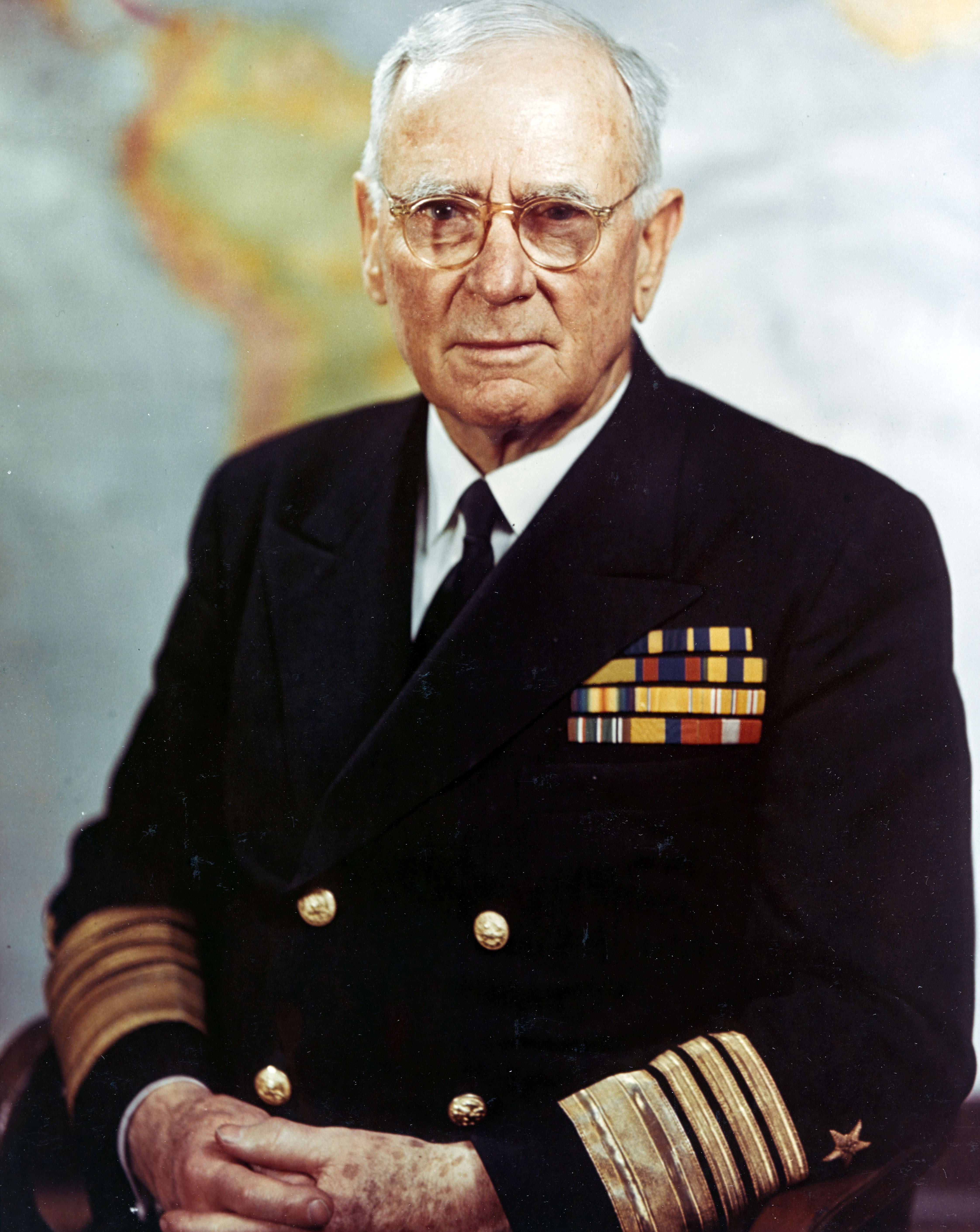 80-G-K-2786: Admiral William H. Standley USN (Retired). Formal Full-Face view seated in a chair. Former Chief of Naval Operations. February 16, 1945. Naval History and Heritage Command. (2016/04/04).